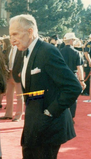 Vincent Price on the red carpet at the 1989 Academy Awards, March 29, 1989